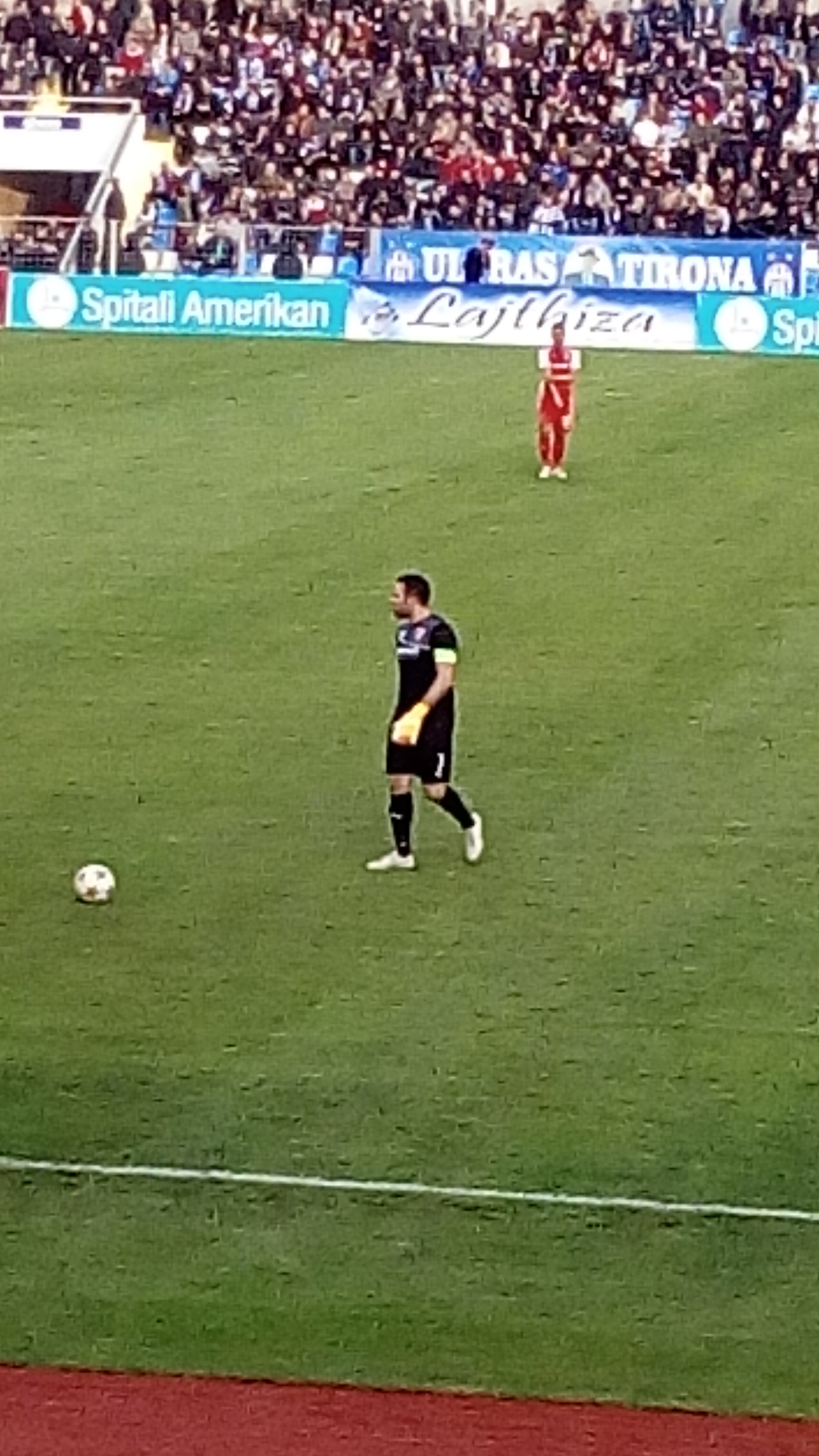 Orges Shehi.